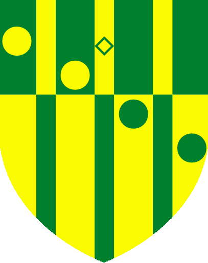 The shield of arms of The Right Honourable Theresa Mary May, being the arms of her husband - Philip John May, son of Robert John May - differenced by a mascle.